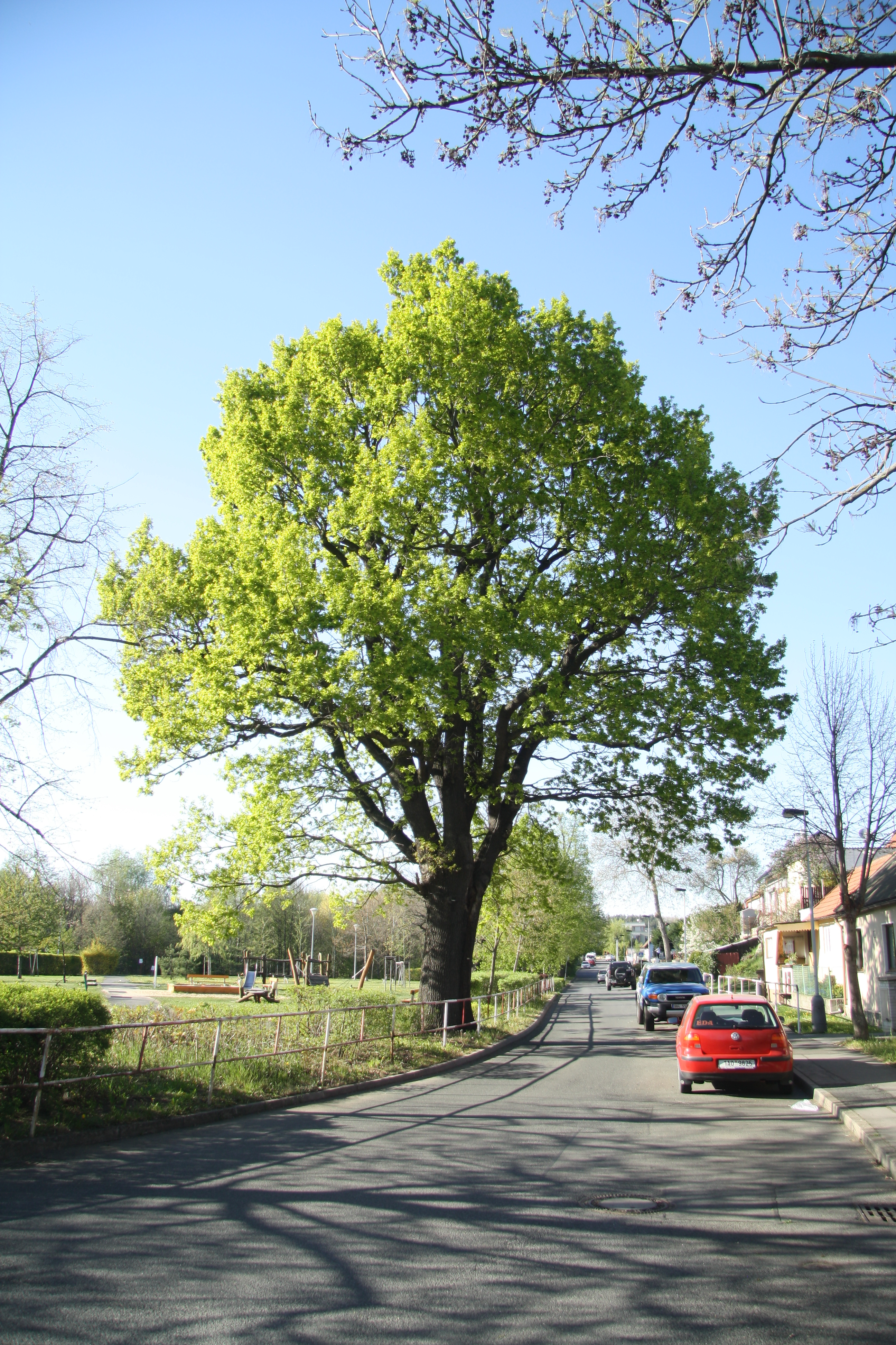 Detail view of Famous treet Dub v Hostavicích at Vidlák street in Hostavice, Prague.